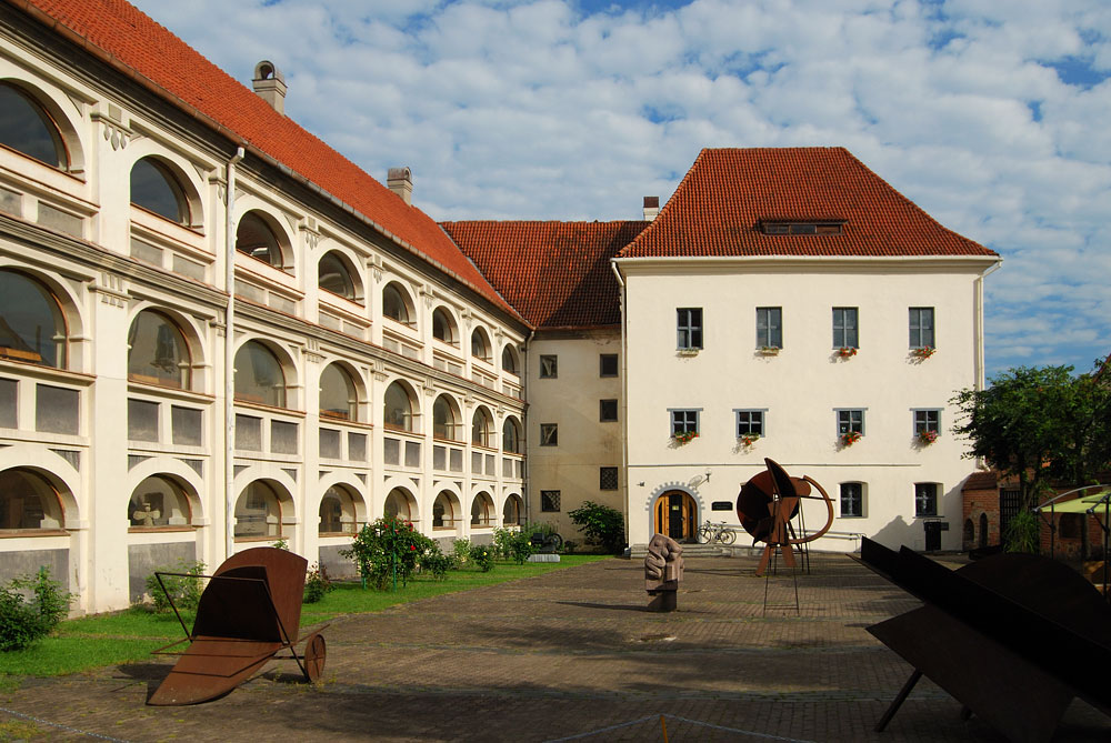 Lithuanian Technical Library in Vilnius